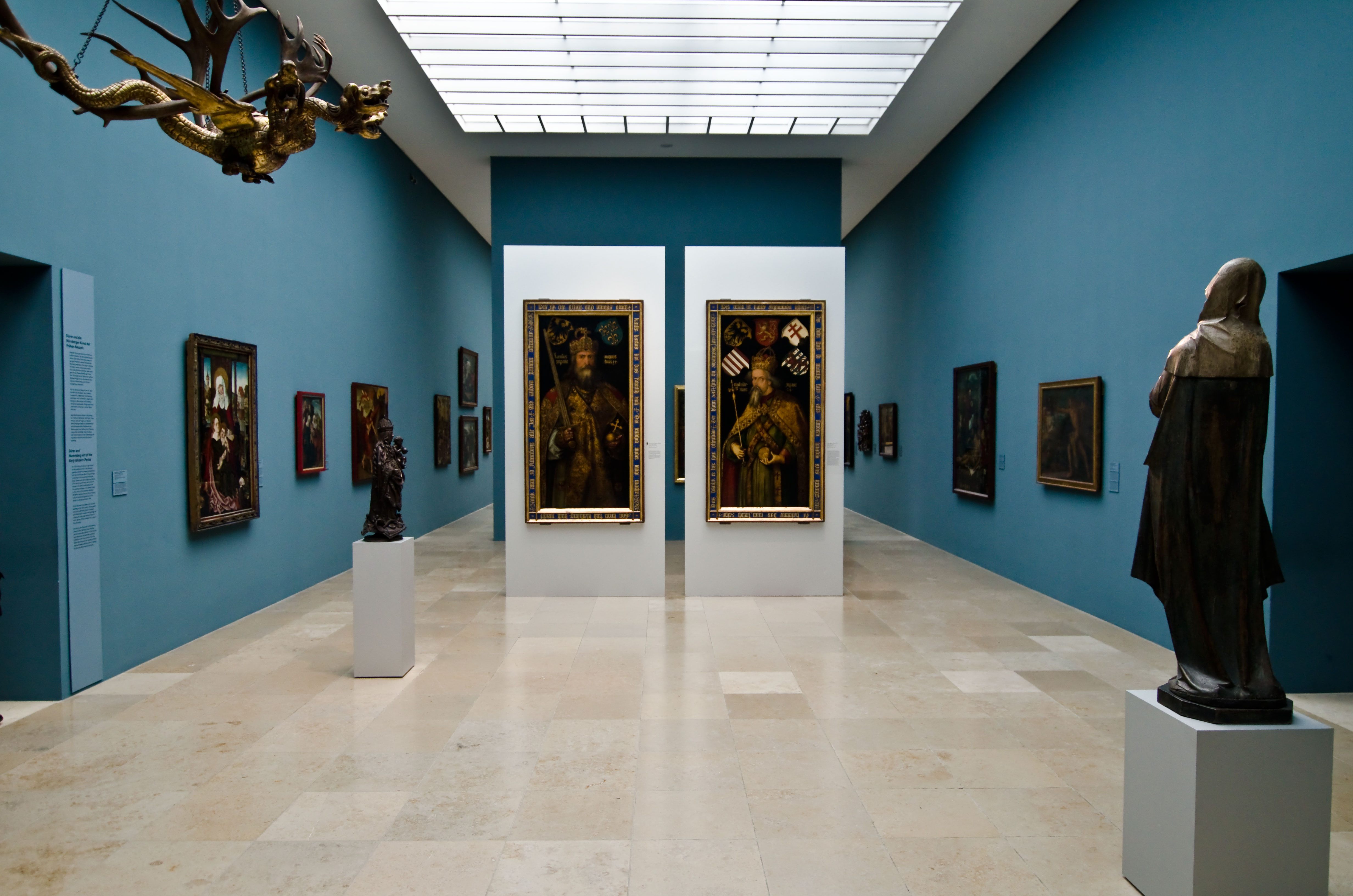 The Renaissance art gallerie of the Germanisches Nationalmuseum, Nuremberg.